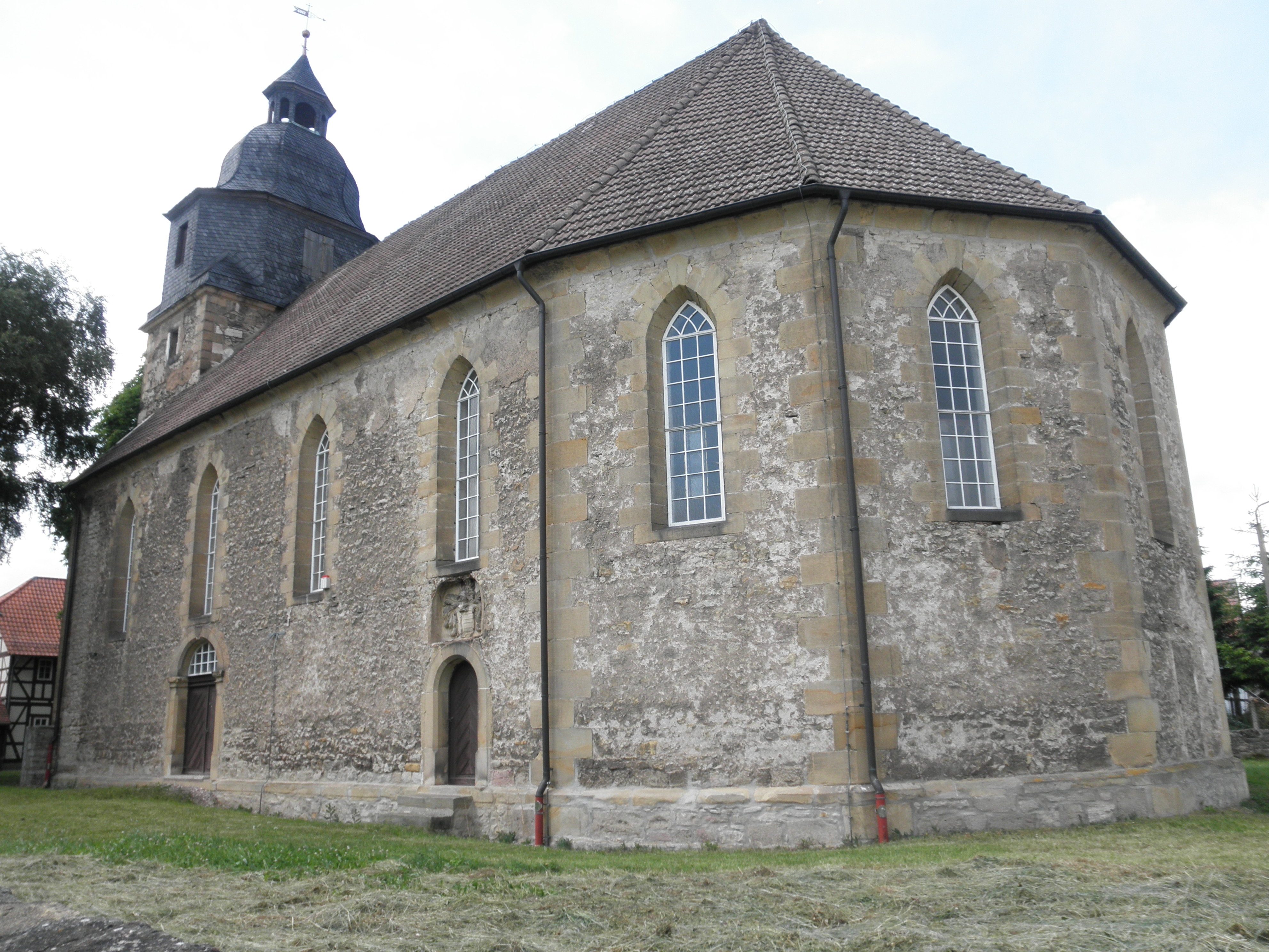 Church in Oesterbehringen, Thuringia